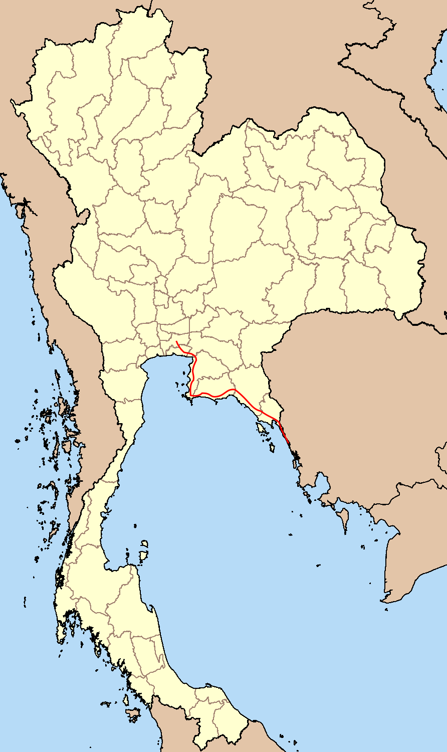 approximate course of Sukhumvit Road (Highway No. 3) in Thailand